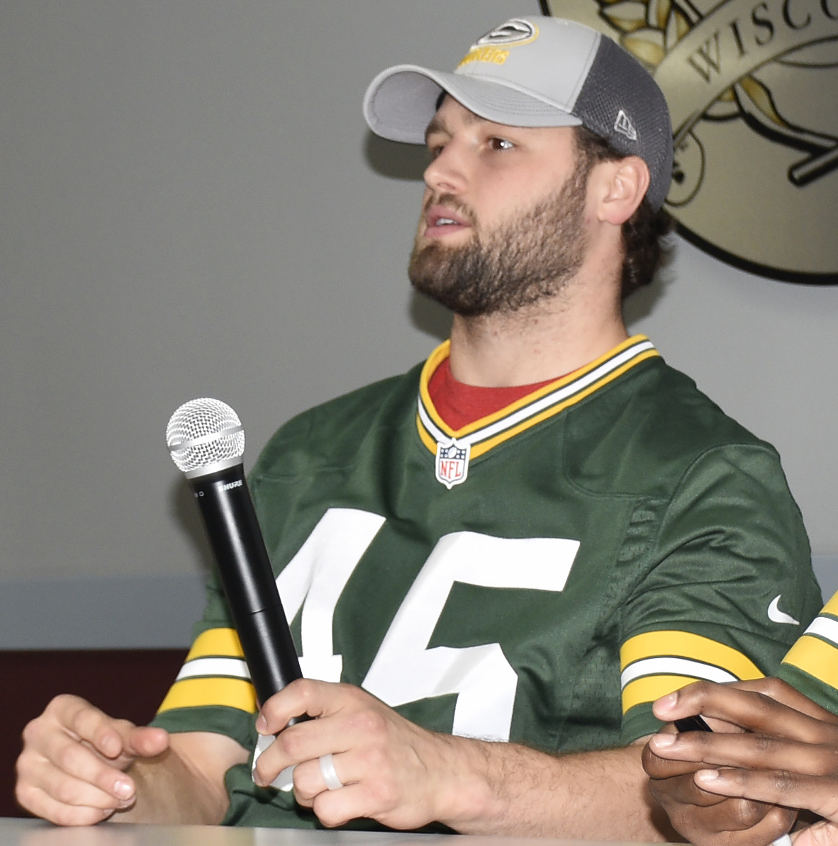 Three members of the Green Bay Packers visited cadets from the Wisconsin National Guard Challenge Academy at Fort McCoy, Wis., Nov. 28. The Packers visited the Challenge Academy facilities and spoke to the cadets about overcoming challenges in their lives during their visit. Wisconsin National Guard photo by Capt. Joe Trovato